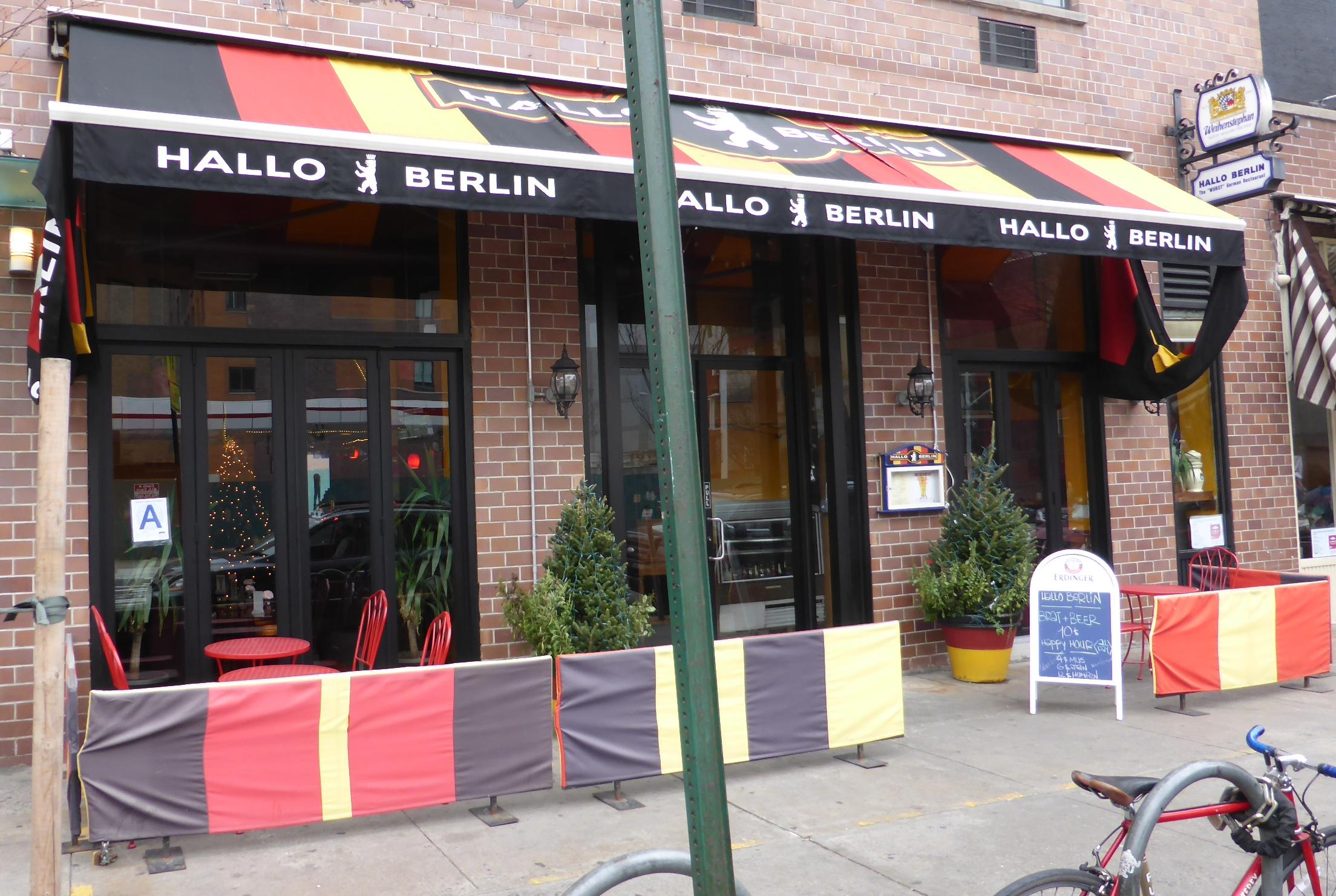 Hallo Berlin, Tenth Avenue between 44th and 45th Streets, Manhattan, December 2015